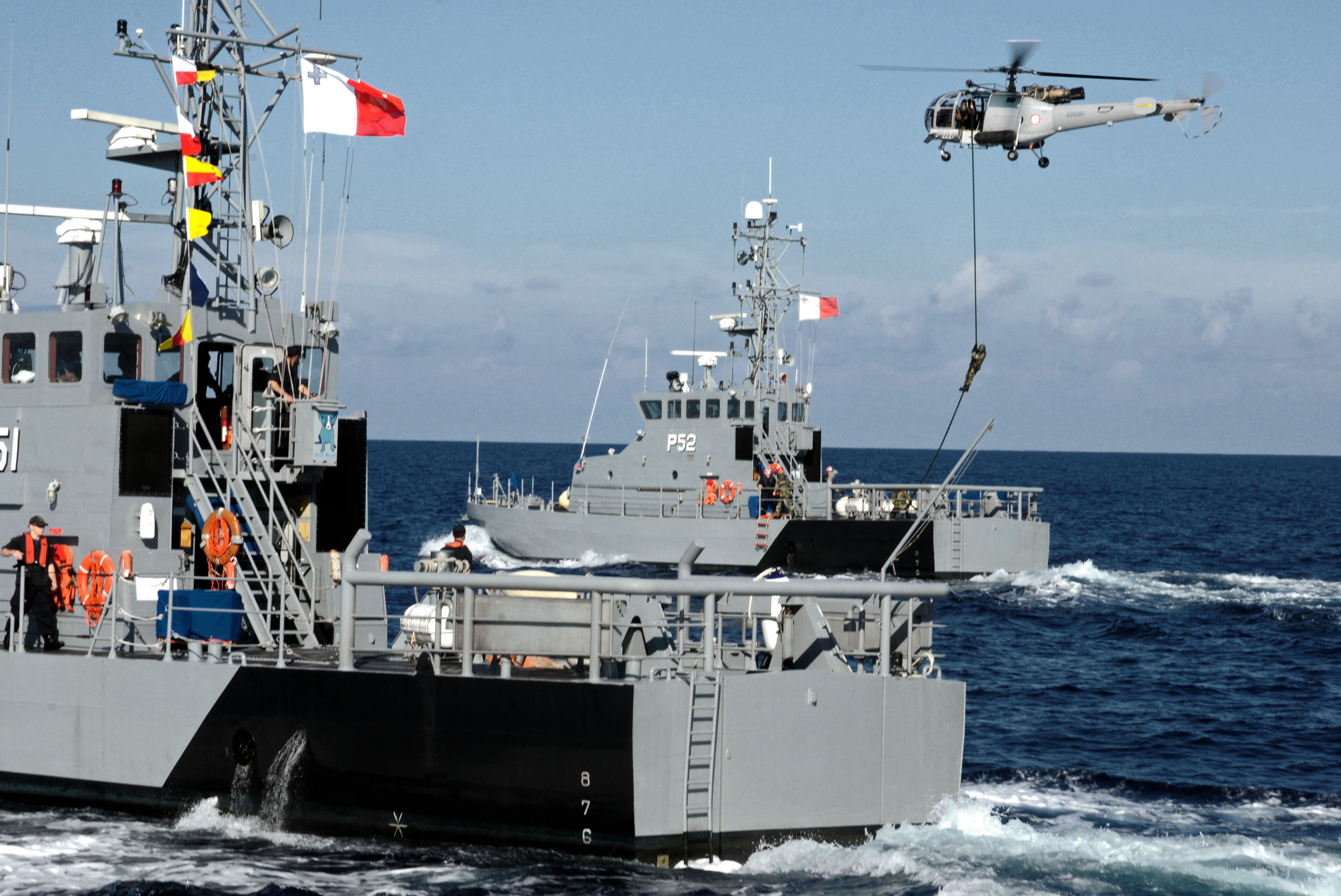 VALLETTA, Malta (Dec. 5, 2011) The Armed Forces of Malta counter piracy vessel protection detachment demonstrates aerial boarding procedures during Eurasia Partnership Capstone (EPC) 2011. Participants for EPC 2011 include approximately 100 representatives from Azerbaijan, Bulgaria, Georgia, Greece, Malta, Romania, Ukraine and the United States, who will focus on strengthening maritime relationships between Eurasian nations. Training workshops will range from maritime law enforcement, search and rescue, marine environmental protection and advanced network-enabled maritime interdiction operations (MIO). (U.S. Navy photo by Mass Communication Specialist 3rd Class Caitlin Conroy/Released)